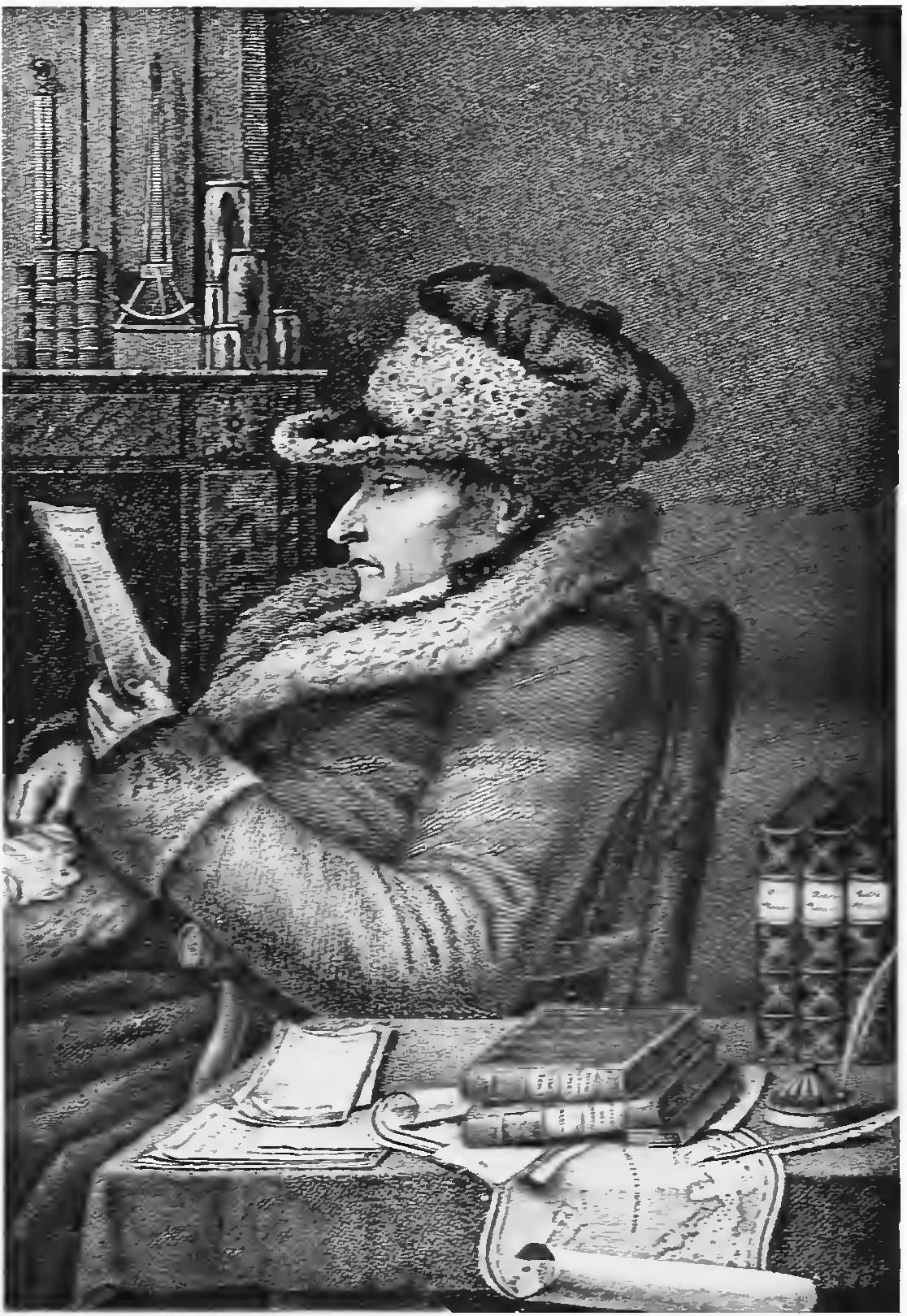 Image taken from the book: Terre Napoleón; a history of French explorations and projects in Australia. 2nd Edition. Scott. 1911.